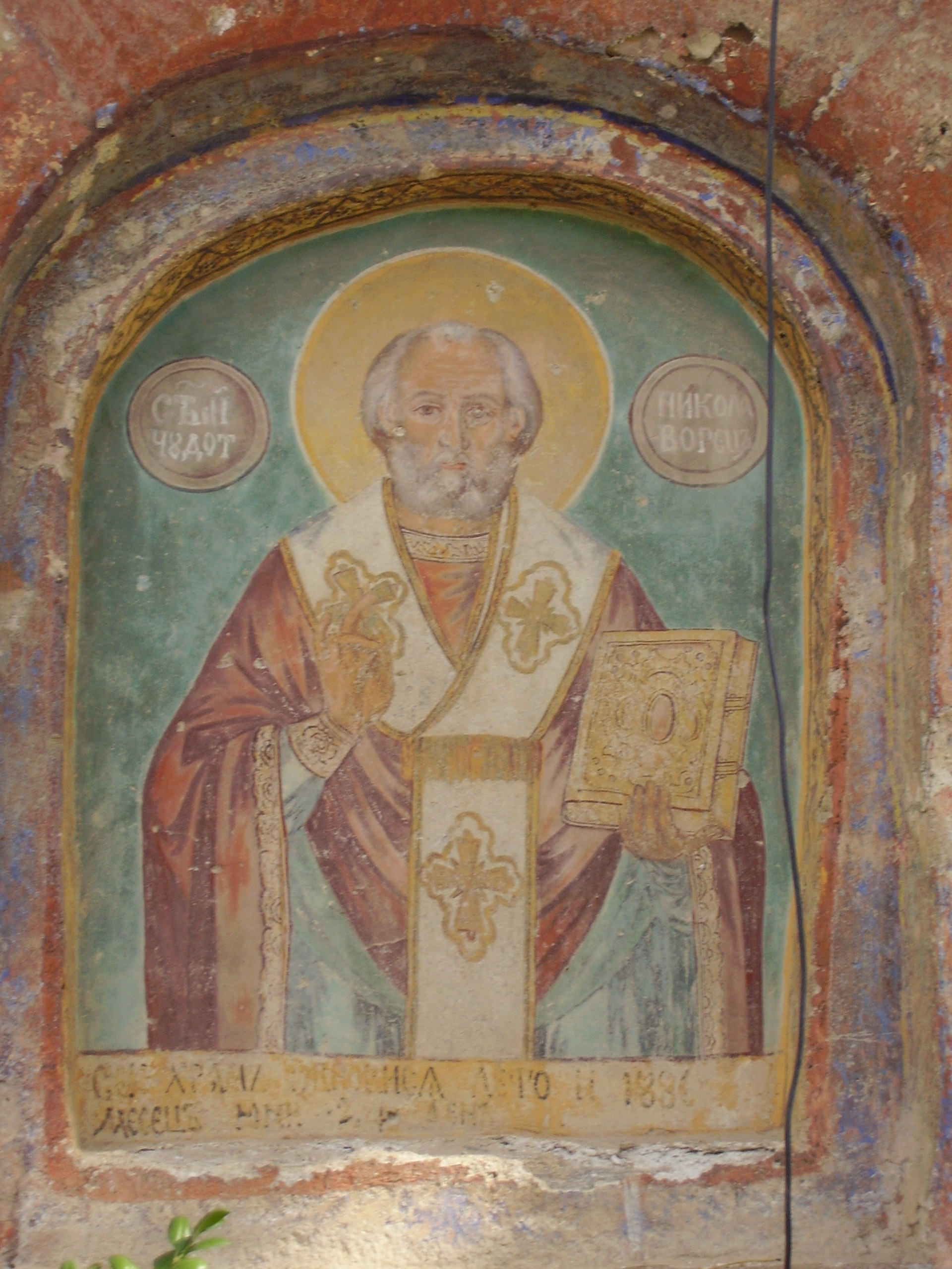 Iconic fresco of Saint Nikola, over the entrance of church "Saint Nikola", village Slokoshtitsa, Bulgaria